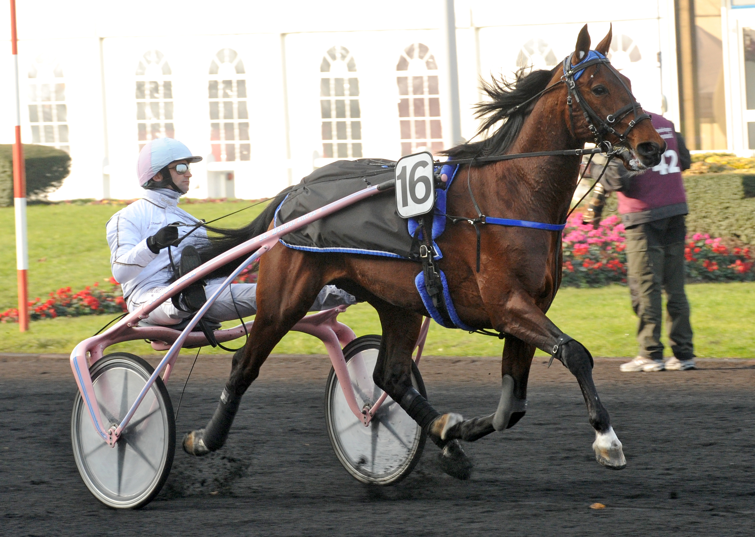 French trotting horse Oyonnax.